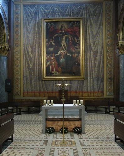 Church of the Venerable English College, Rome, via di Monserrato. Taken by Michael Patey.